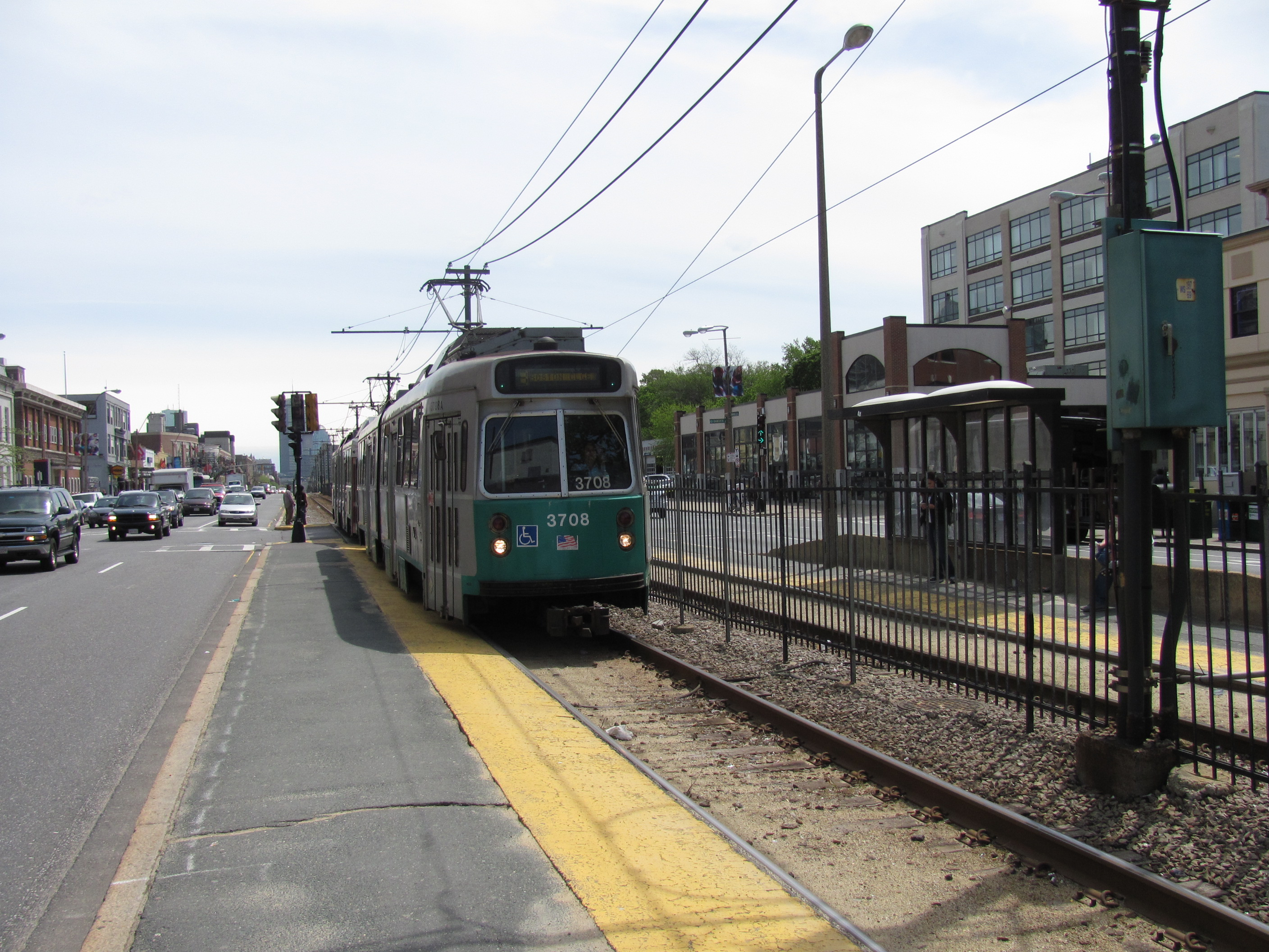 Babcock Street MBTA station on the Green Line B branch, inbound looking east, Boston Massachusetts